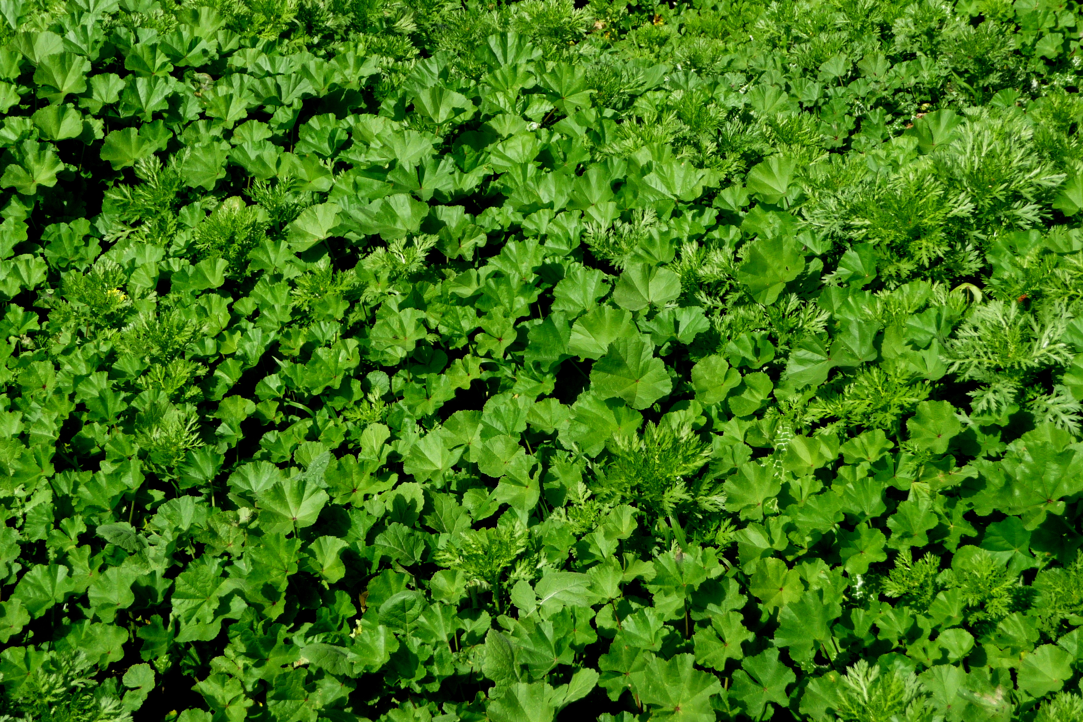 Carmel Park